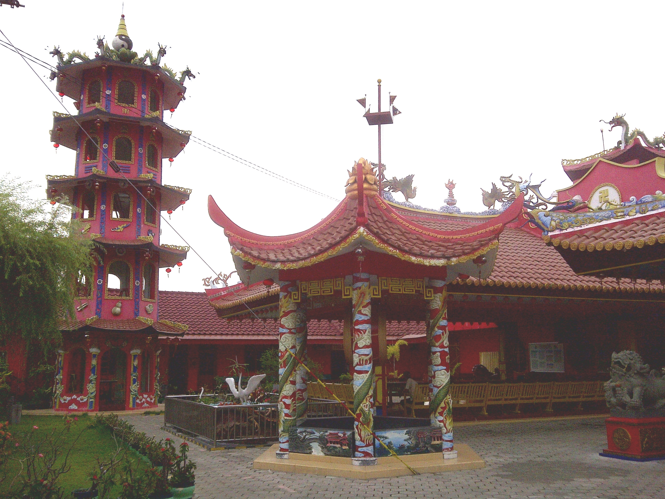 Pagoda of Hoo Tong Bio temple, Banyuwangti, Indonesia